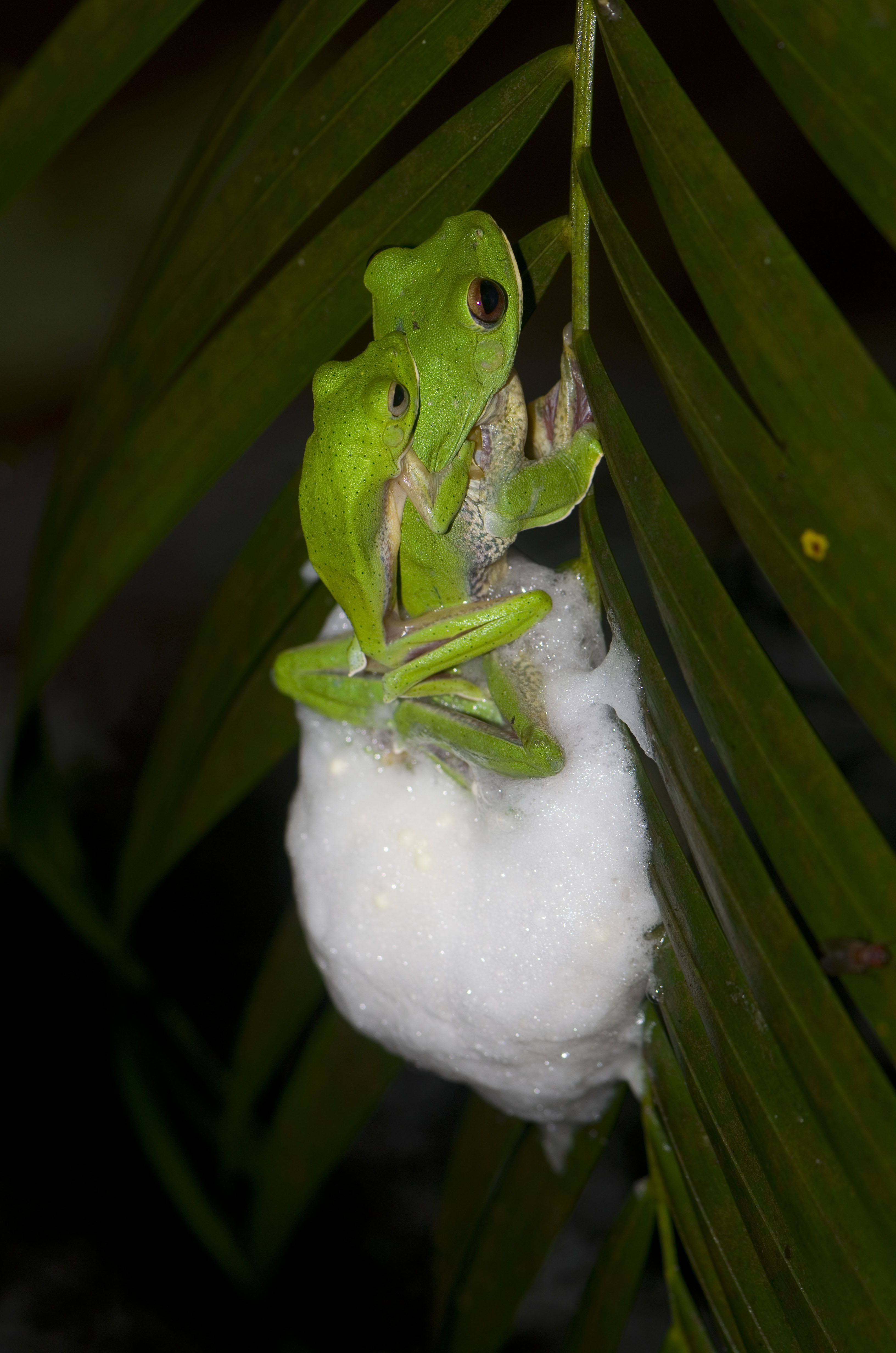 Rhacophorus malabaricus Malabar gliding frog mating pair on foam nest